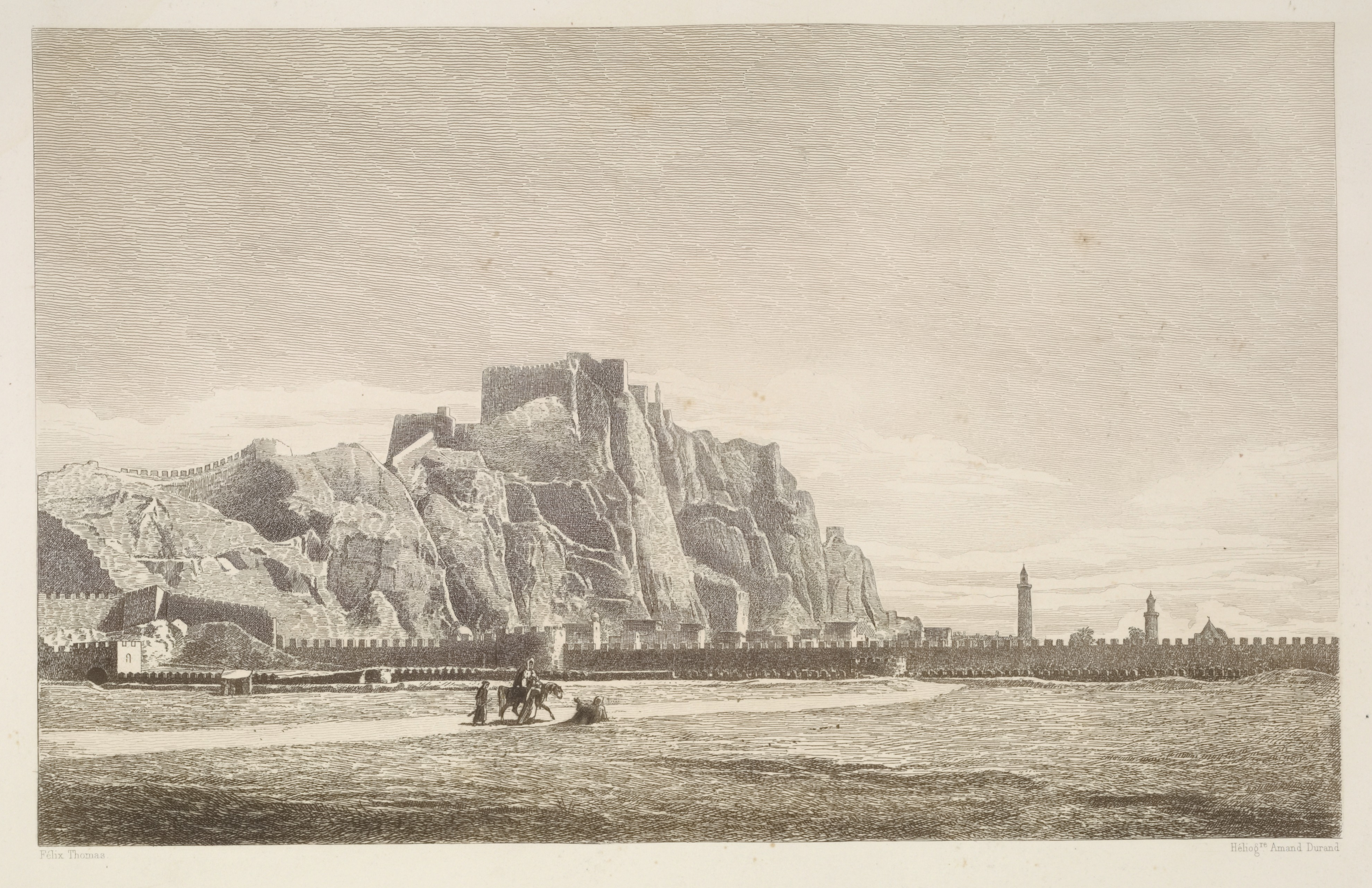 The city of Van